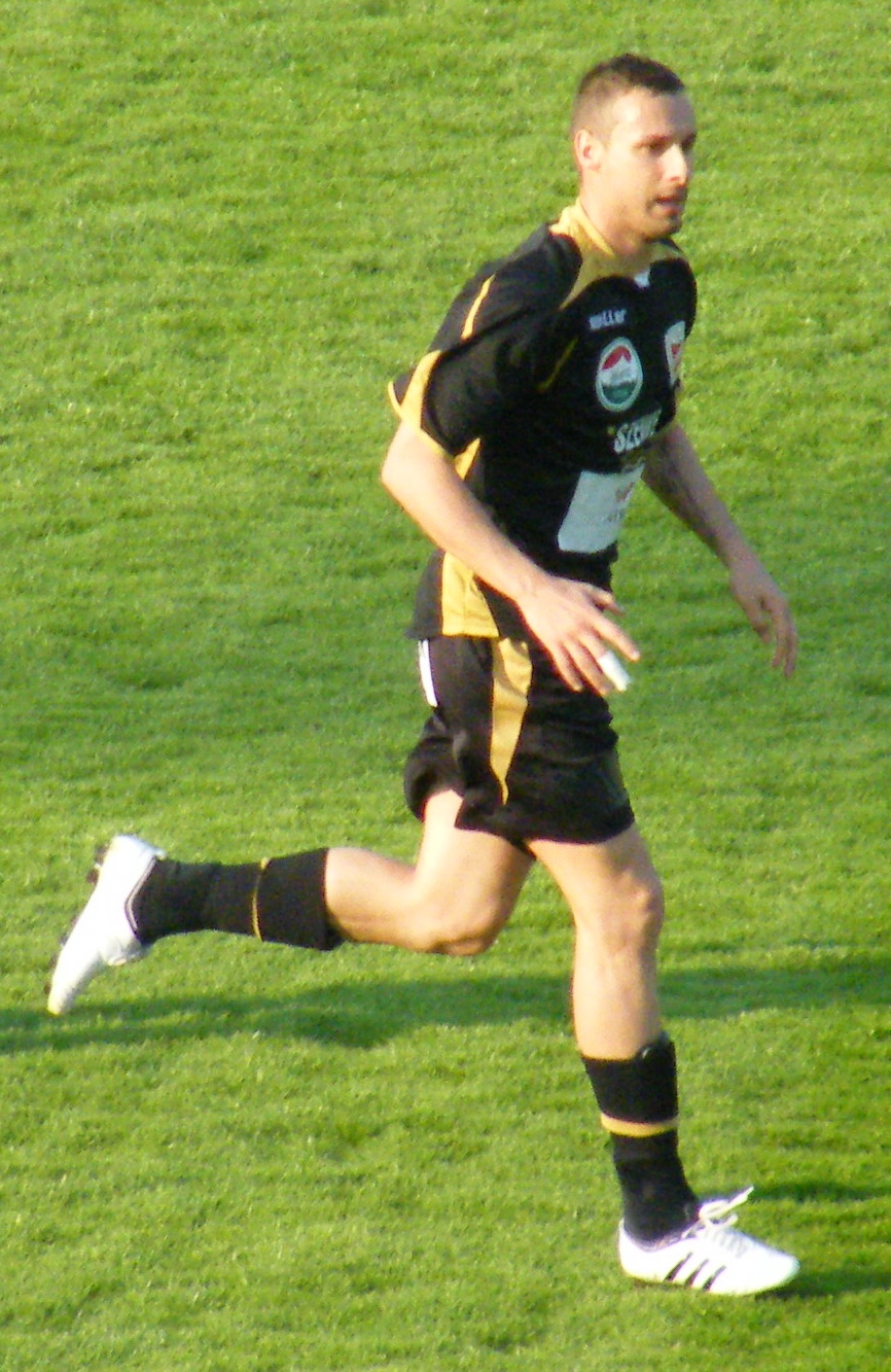 Srđan Stanić (1982)